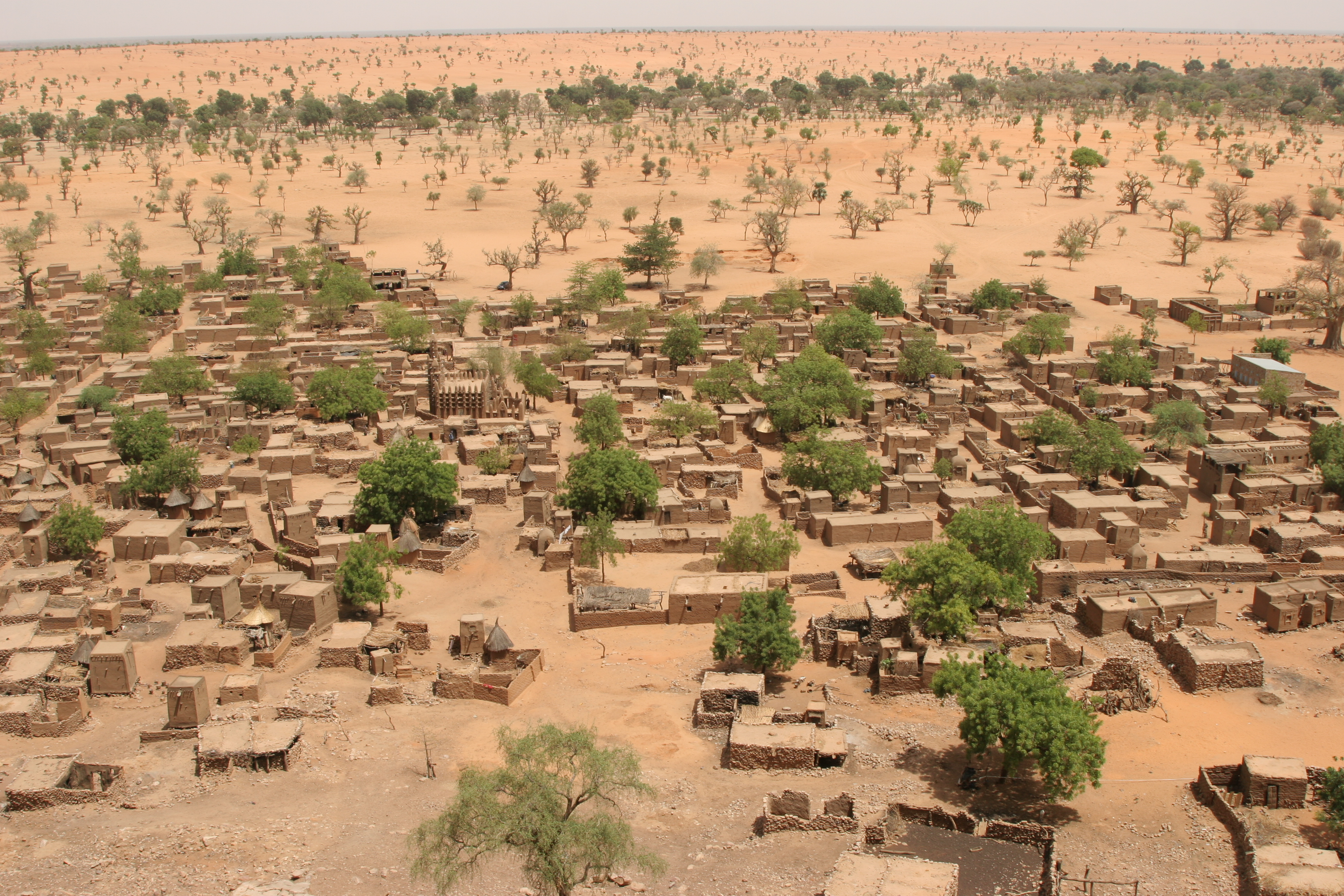 Telly, one of the first villages in the Bandiagara escarpment in Mali.